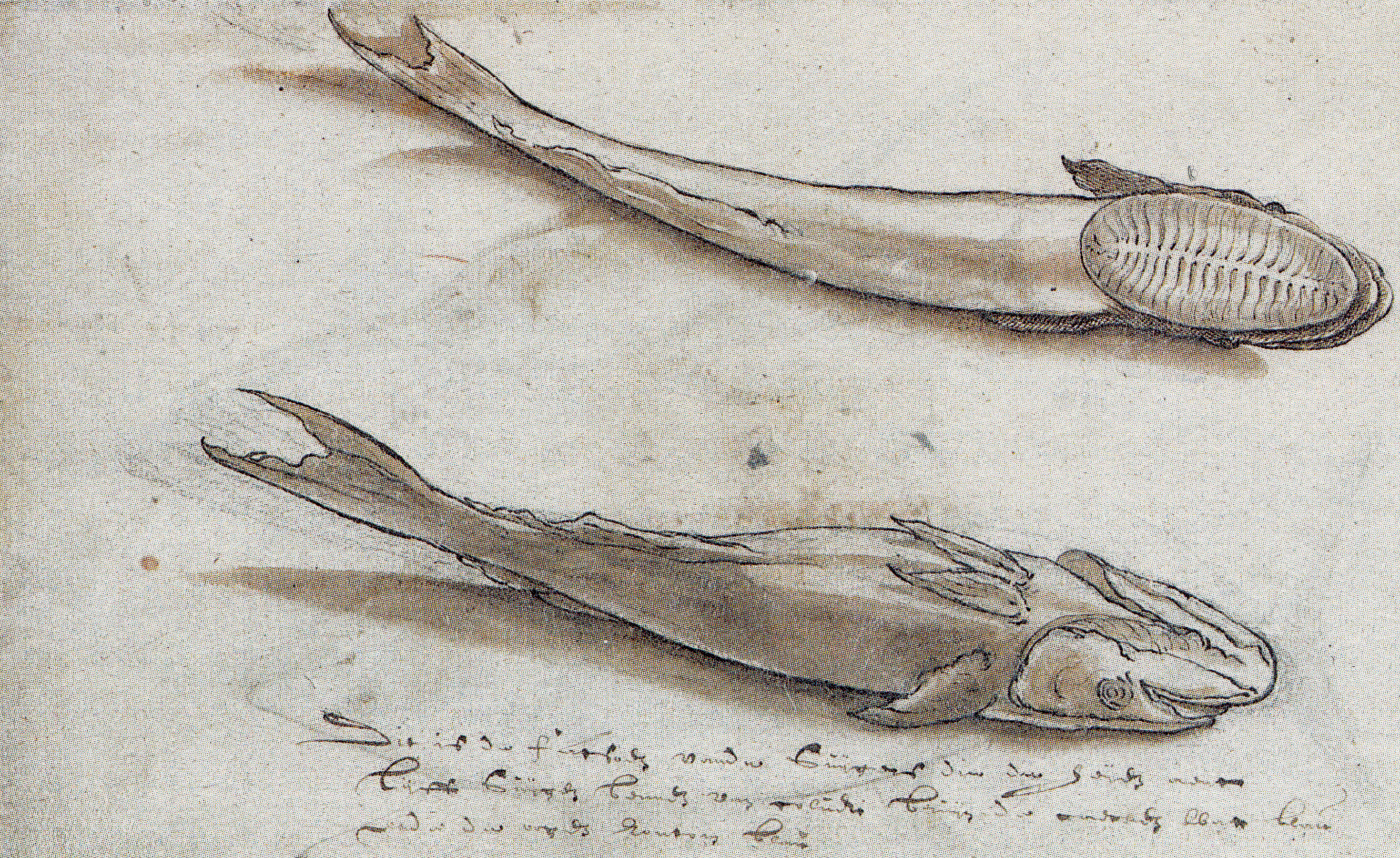 Common remora (Remora remora).